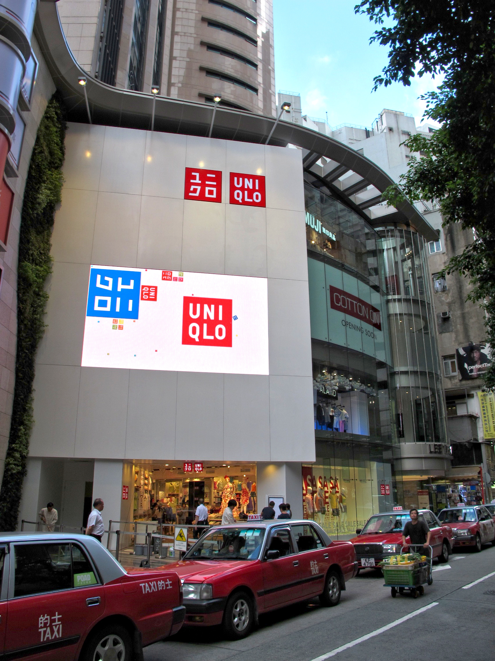 Lee Theatre Plaza New Wing